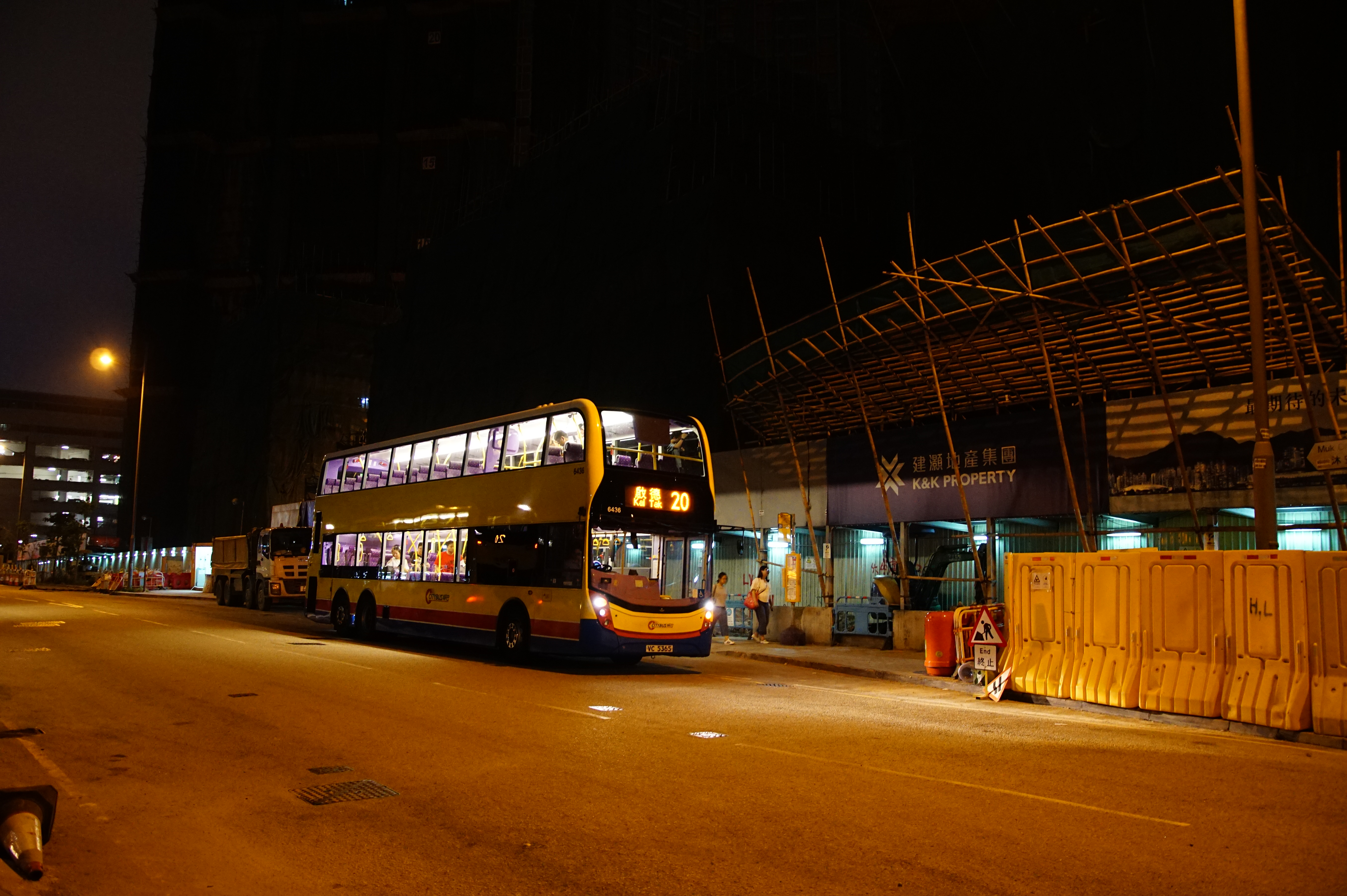 Muk On Streeet, Kai Tak, the temporary bus terminus of Citybus Route 20